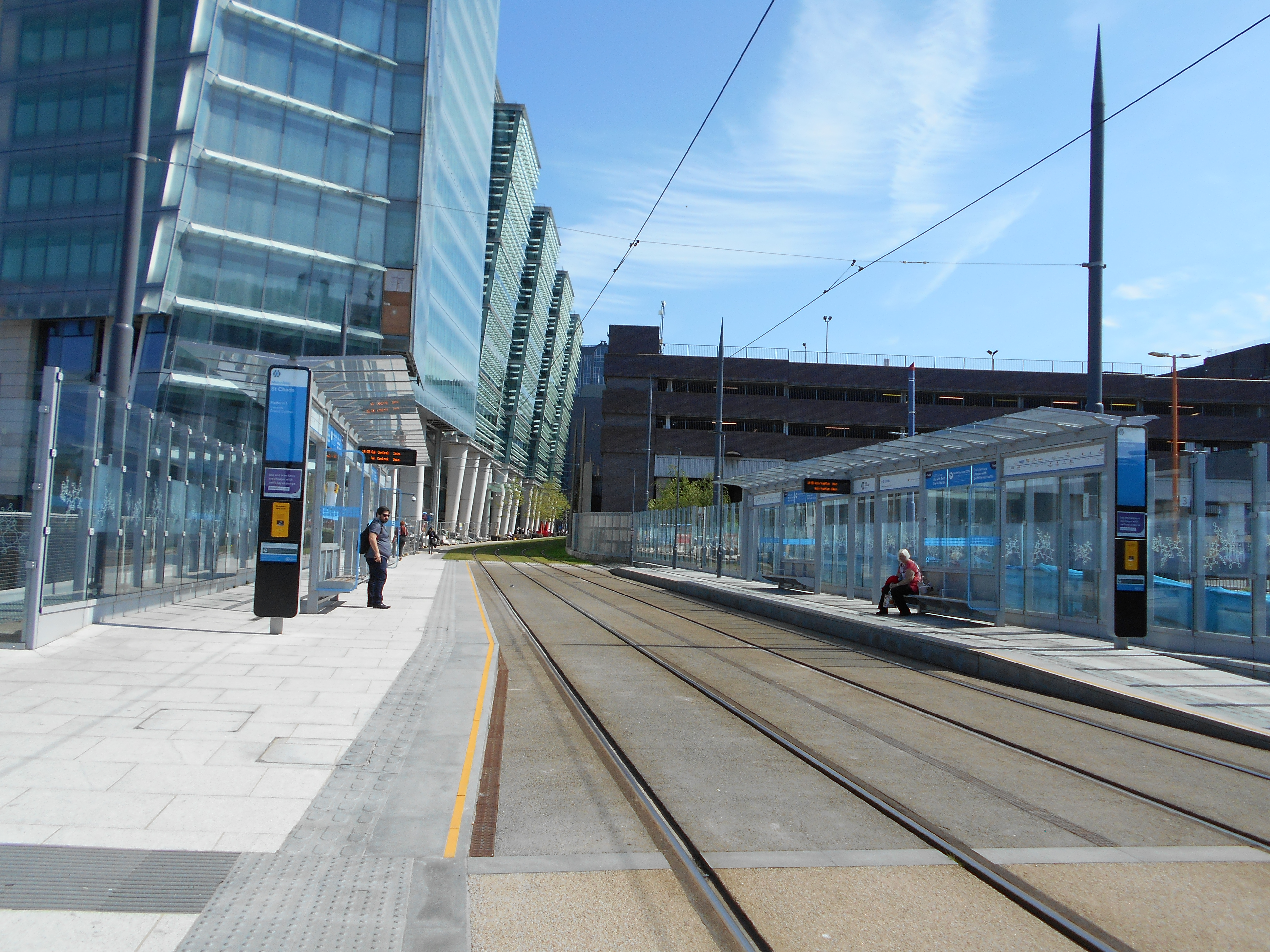 St Chads tram stop, looking towards the adjacent Snow Hill railway station.